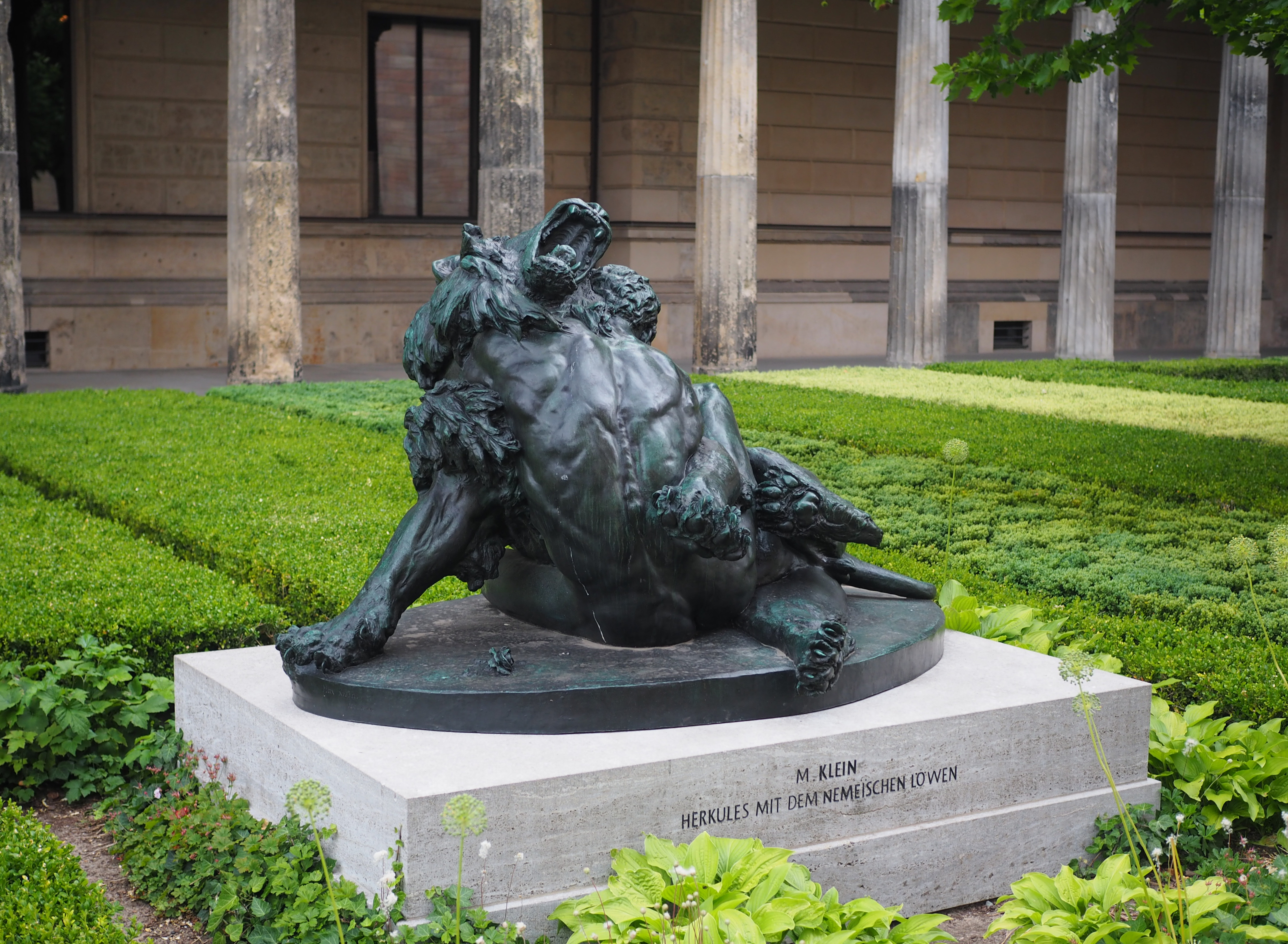 This sculpture "Herkules mit dem nemeischen Löwen" from Max Klein inside of Kolonnadenhof of the Berliner Museumsinsel.